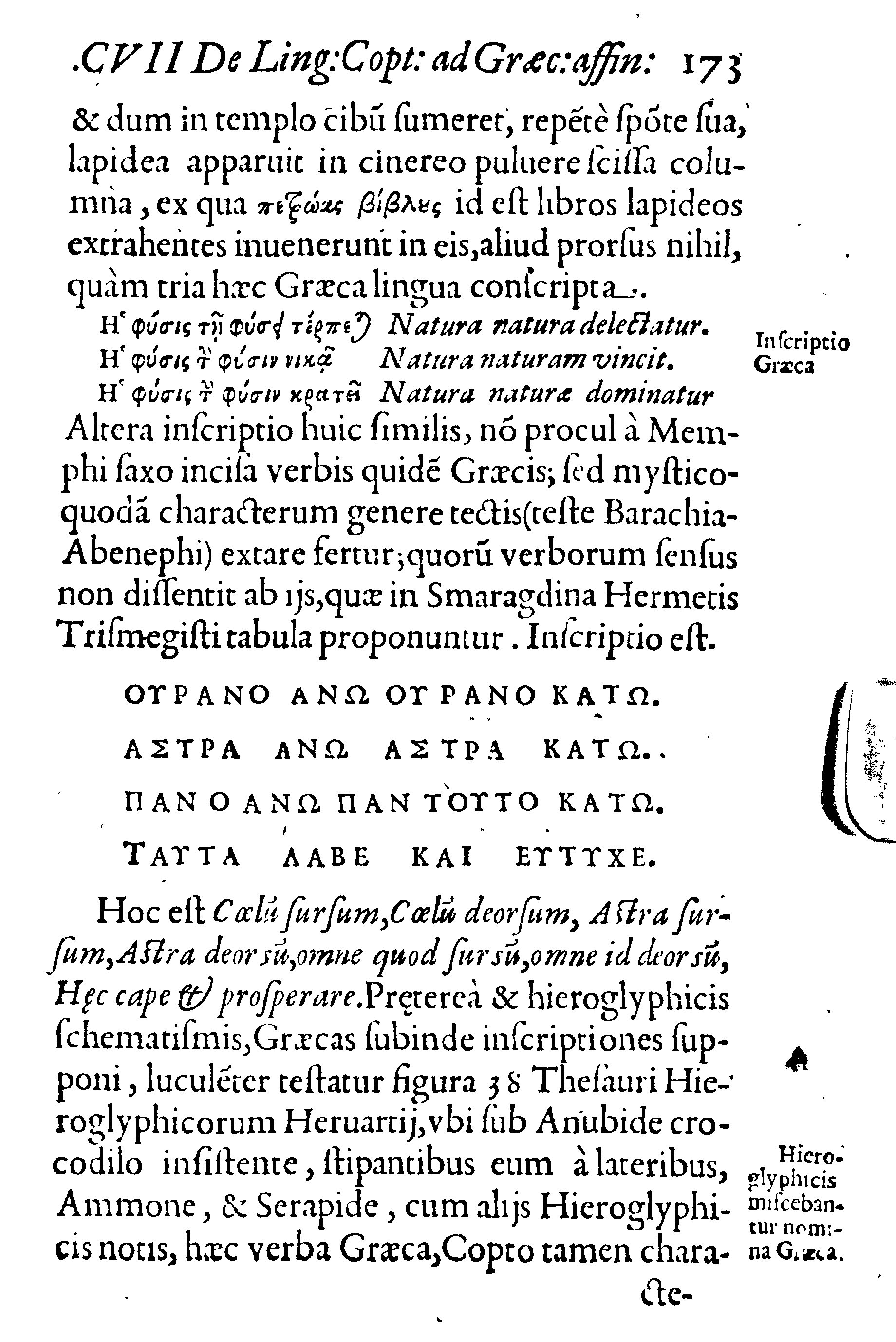 transcription of Tabula memphitica